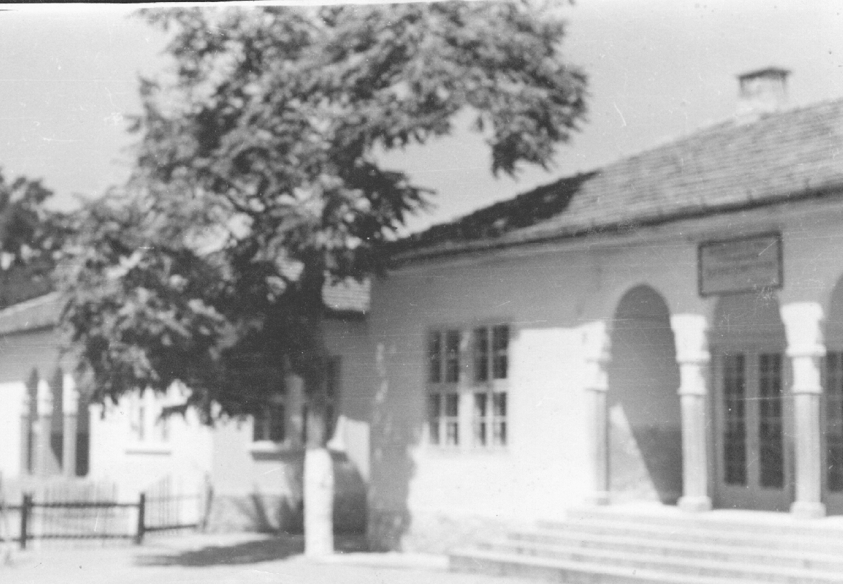 "Tsaritsa Yoanna" School, General Nikolaevo, Plovdiv Province - 1929